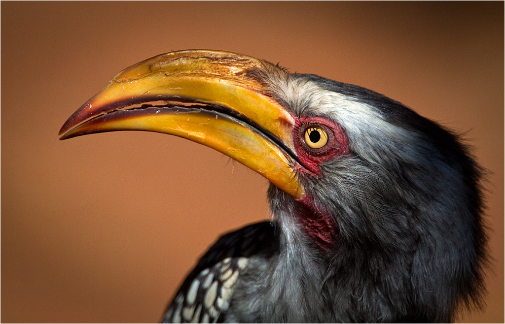 Southern Yellow-billed Hornbill (Tockus leucomelas) is a Hornbill found in southern Africa.